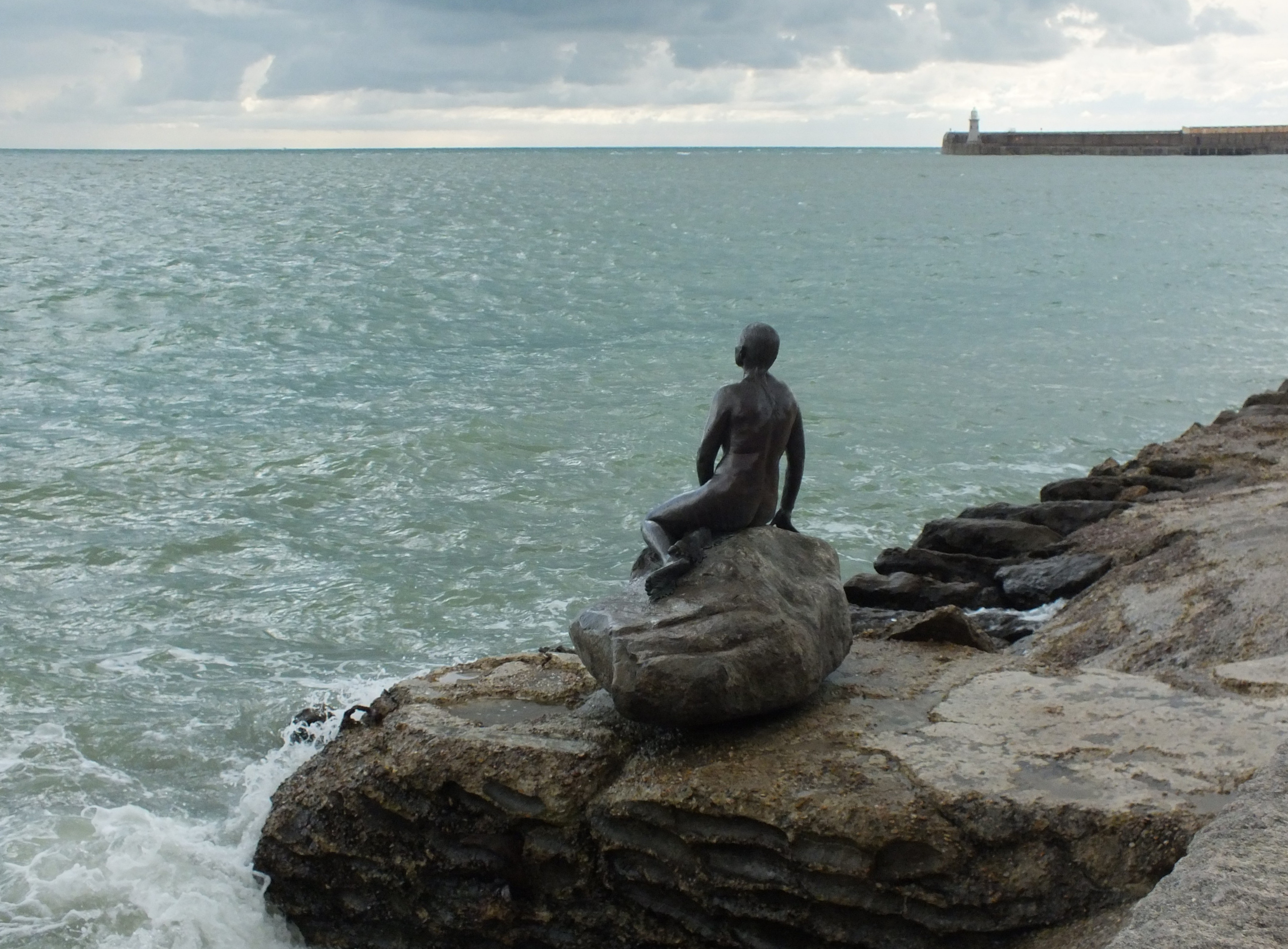 Folkestone: Cornelia Parker's 2011, bronze statue of a mermaid- a life cast of Georgina Baker.